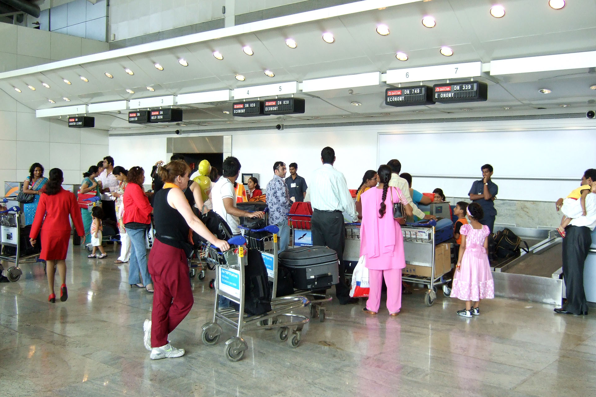 Check-in counter at Mumbai International Airport T1 (domestic terminal).